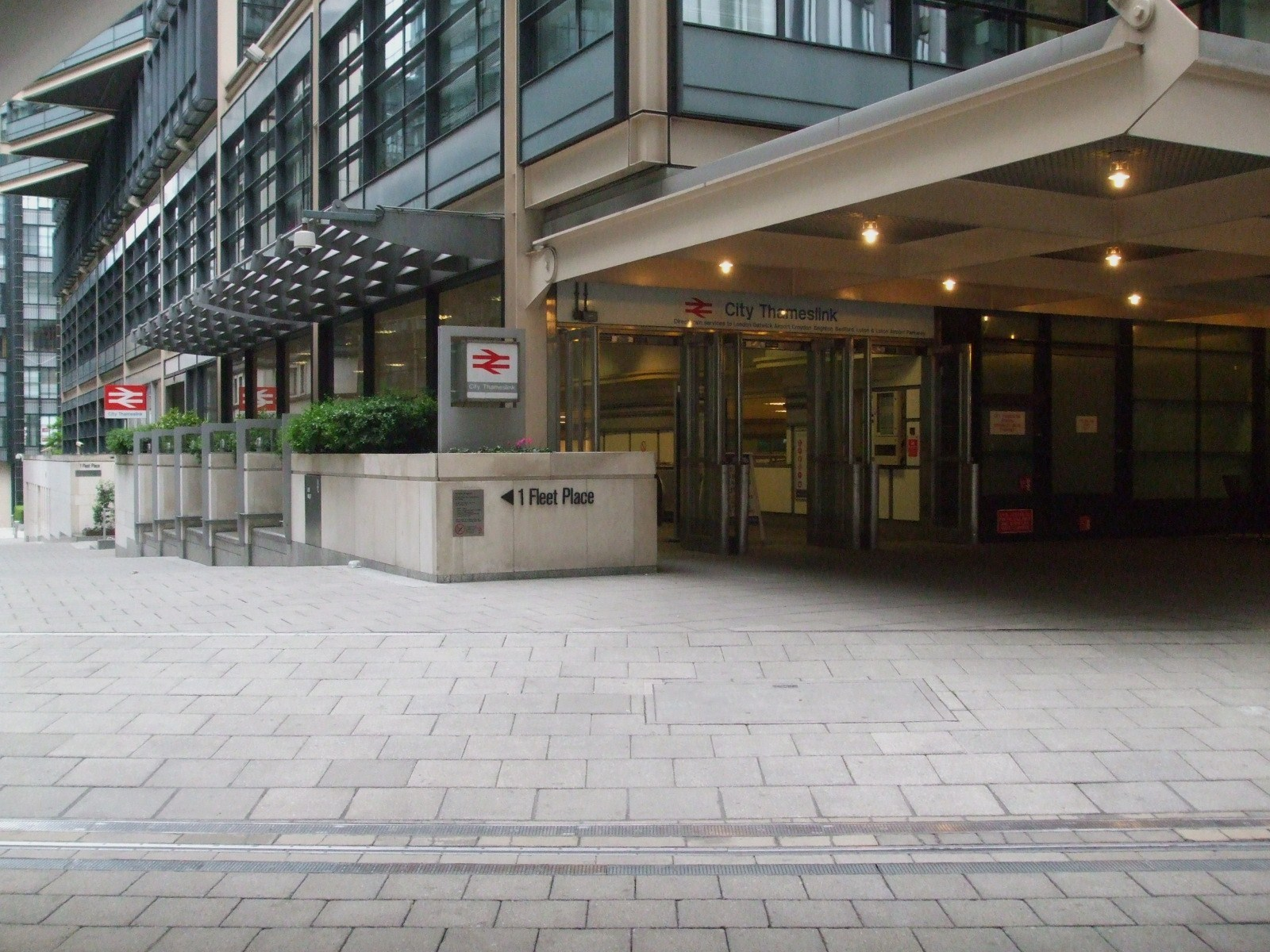 City Thameslink station northern entrance, just off Holborn Viaduct, and very close to the location of the former Holborn Viaduct station